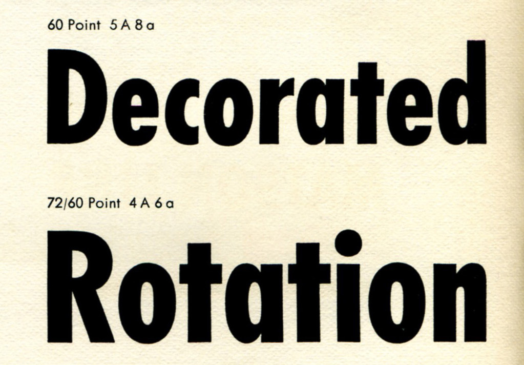 A metal type specimen sheet of Futura Bold Condensed.